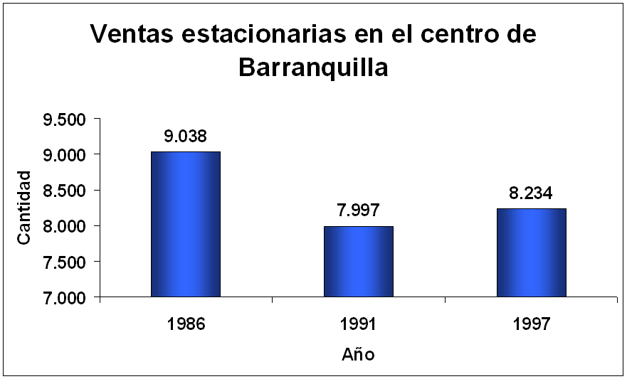 Ventas_estacionarias_en_el_centro_de_Barranquilla